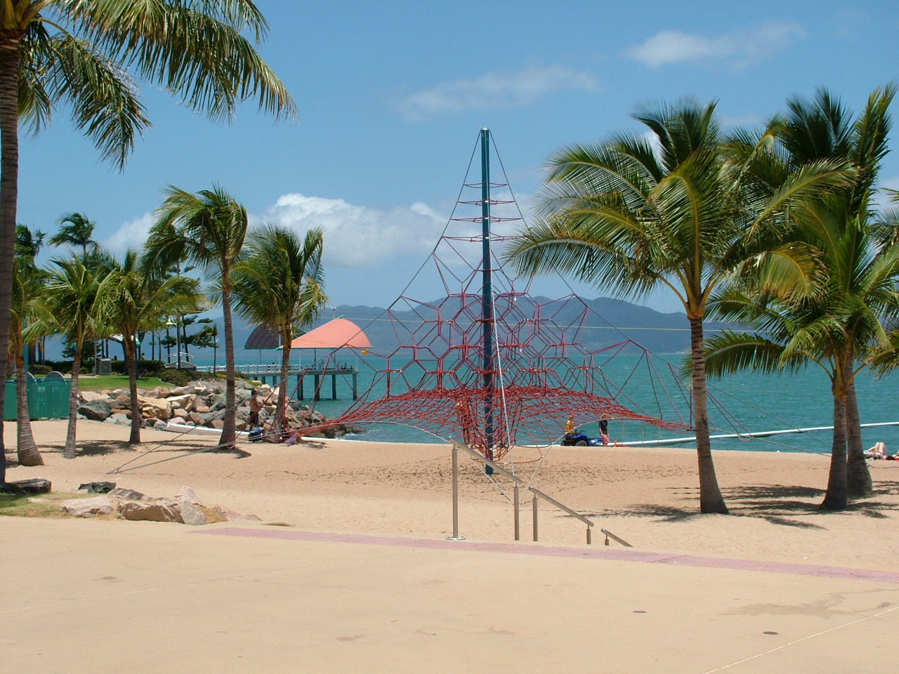 Author: WikiTownsvillian Contributor: WikiTownsvillian Space Net or Spider Web on The Strand, Townsville, Australia NOTE: A 2020 deletion request for this image states that the Space Net is no longer there.